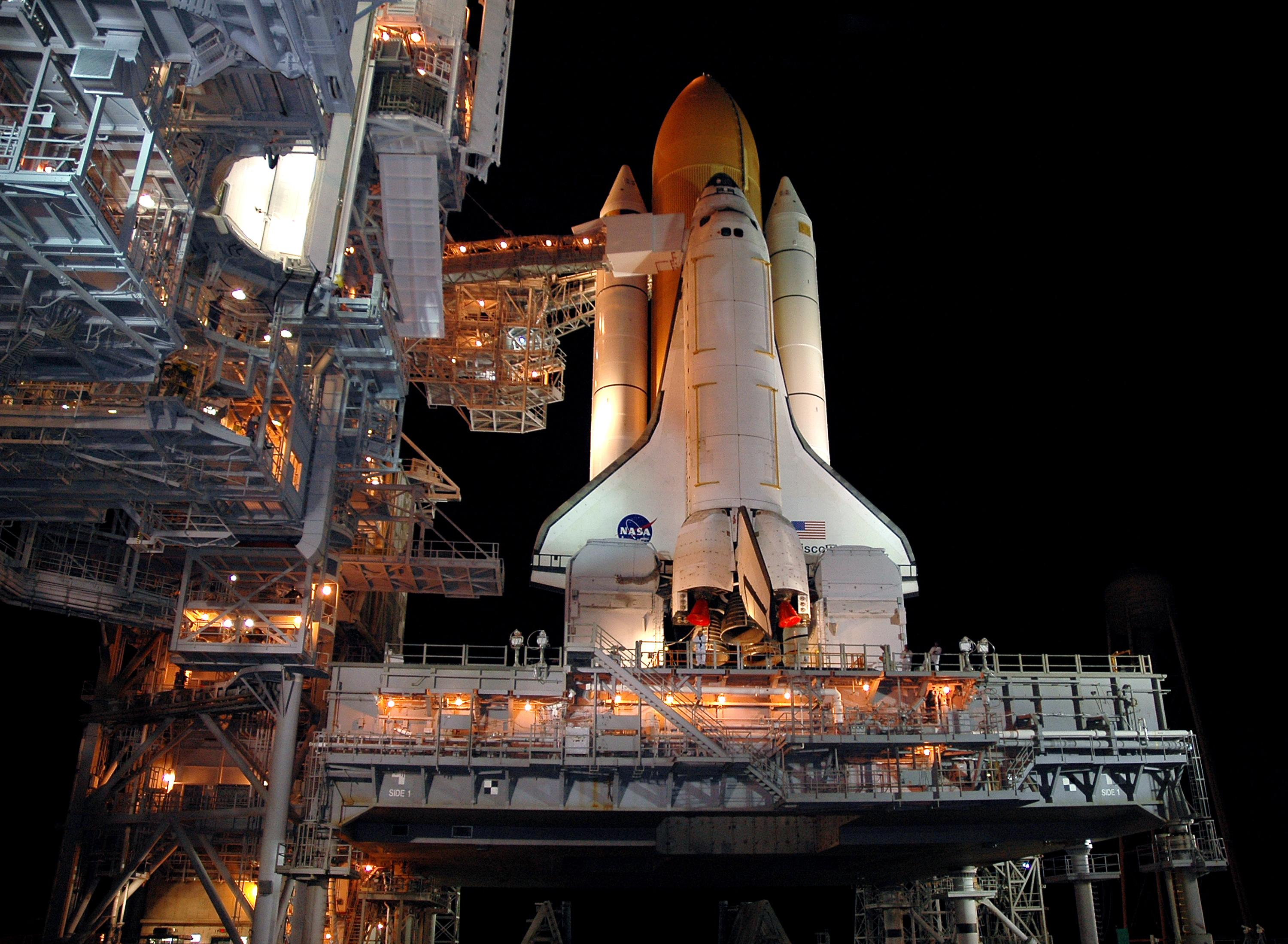 NASA KSC Shuttle Discovery during the operations for the test of the External Tank on 14 April 2005 before the Flight mission, STS-114